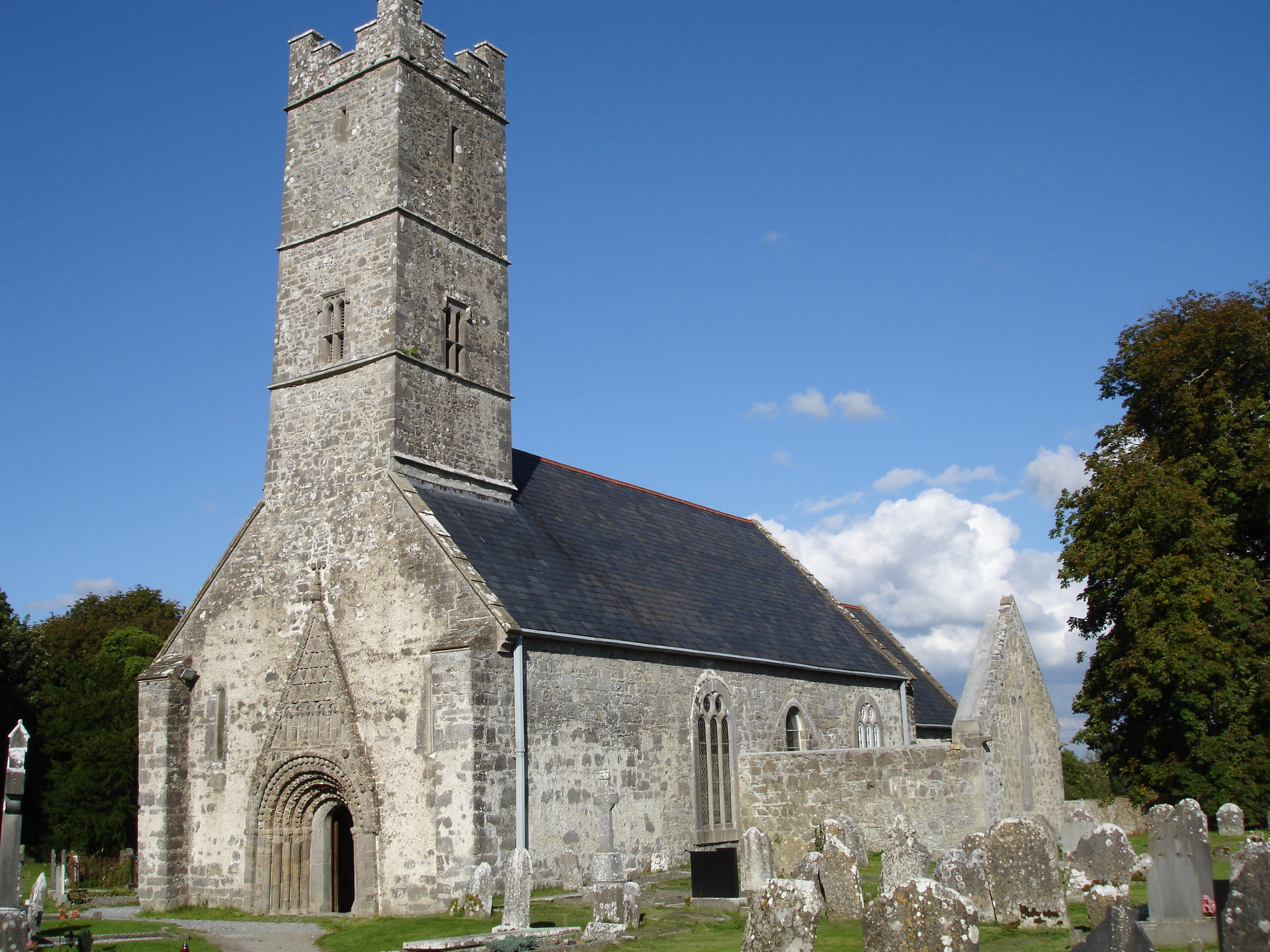 Clonfert Cathedral, Co. Galway, Ireland; Westseite